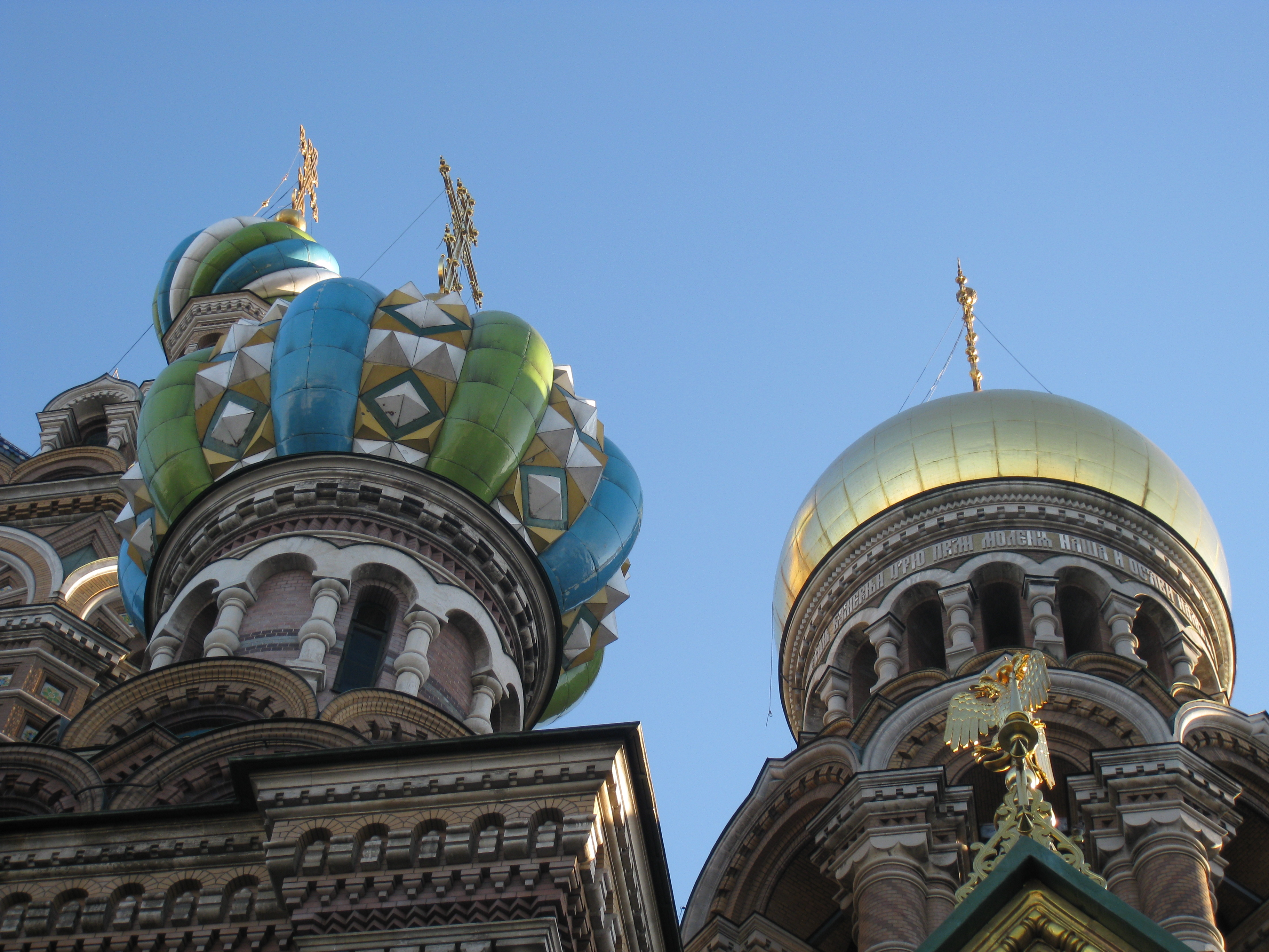 Church of the Saviour on the Blood כנסיית הגואל שעל הדם